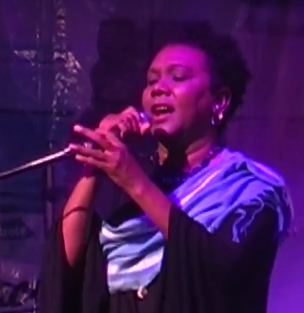 Xiomara Fortuna (1959, Montecristi, Dominican Republic - ) is a Dominican singer and composer.